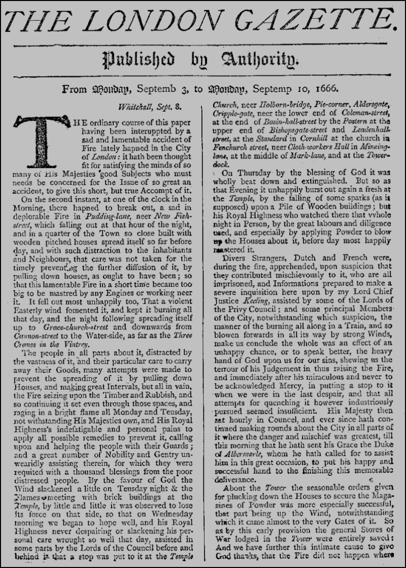 The London Gazette, front page from Monday 3 - 10 September 1666, reporting on the Fire of London. A reprint, the original can be found at the official London Gazette site.